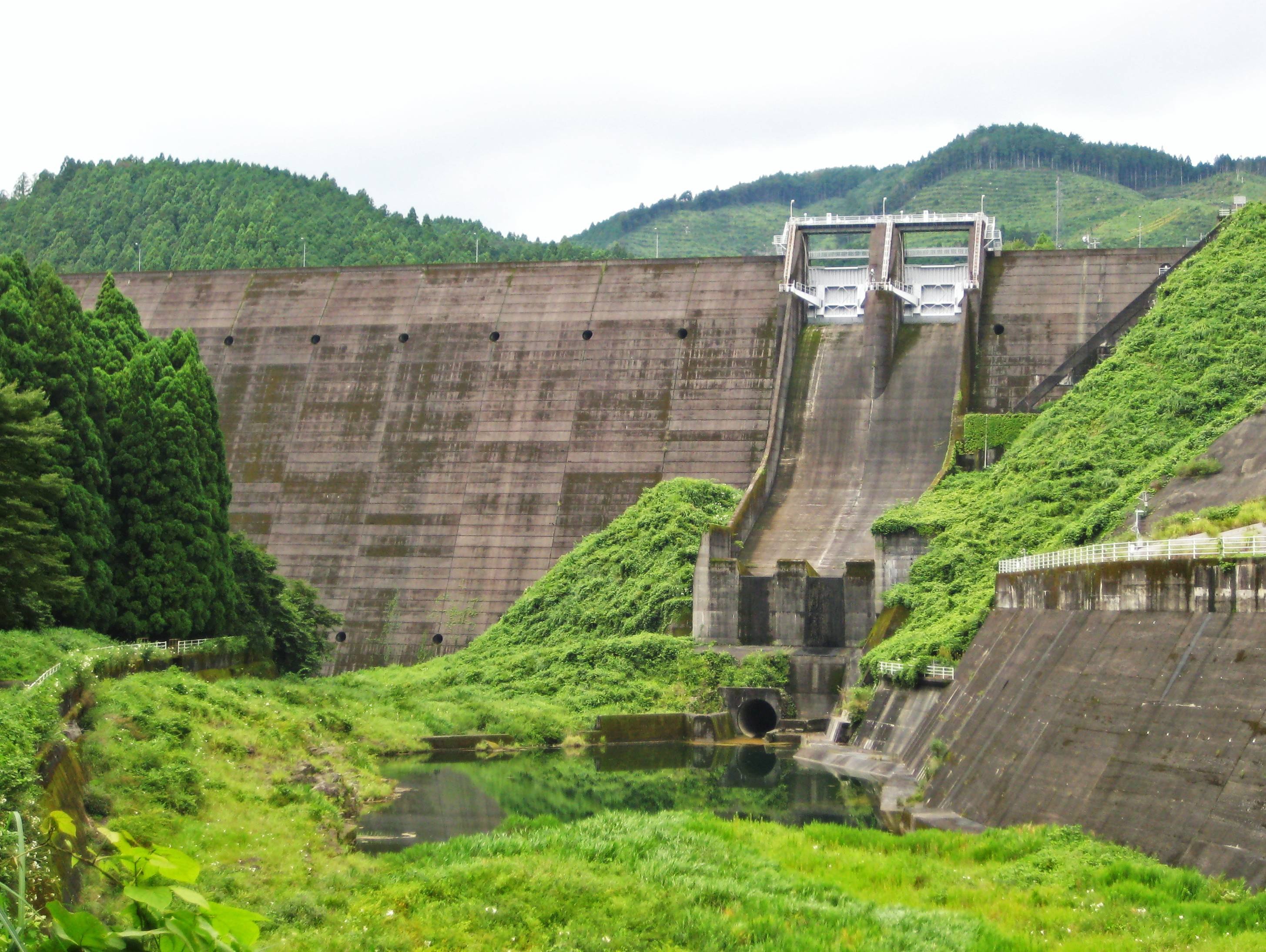 Ananaigawa Dam.